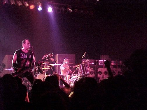 Misfits in concert